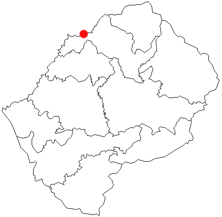 Maputsoe, Lesotho Location Map; created with the GIMP. Made by User:Acntx.